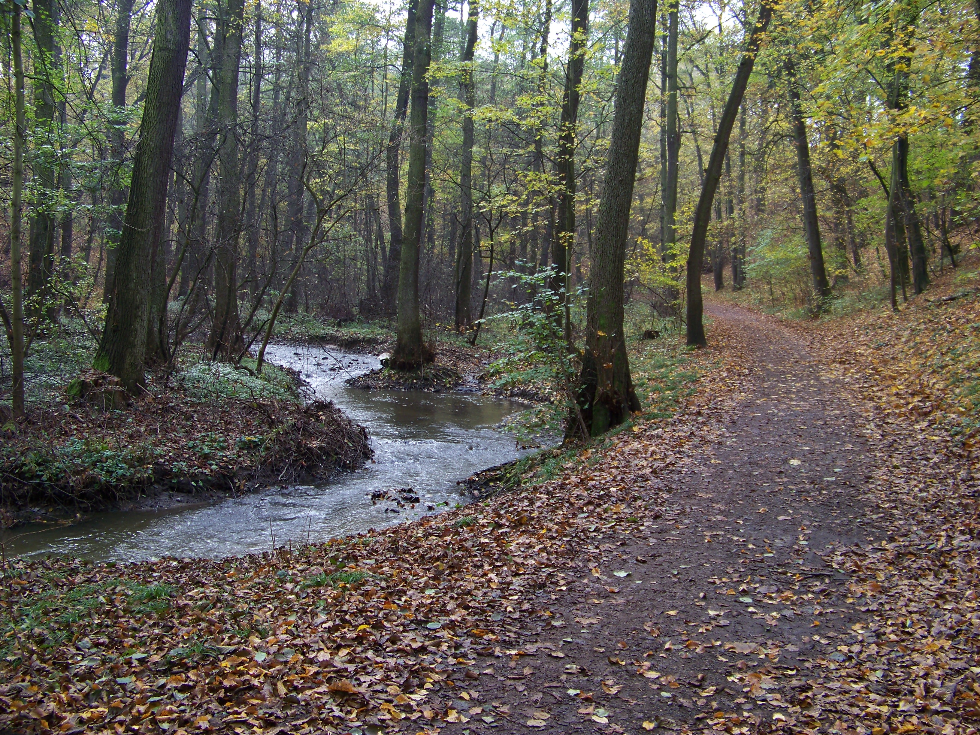 Prague-Kunratice, Czech Republic. Kunratice Forest, Kunratice Creek.